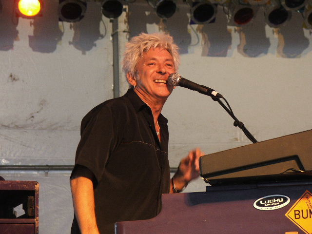 Ian McLagan & The Bump Band. ACL 2006 (Day 2) - Photo by Ron Baker.